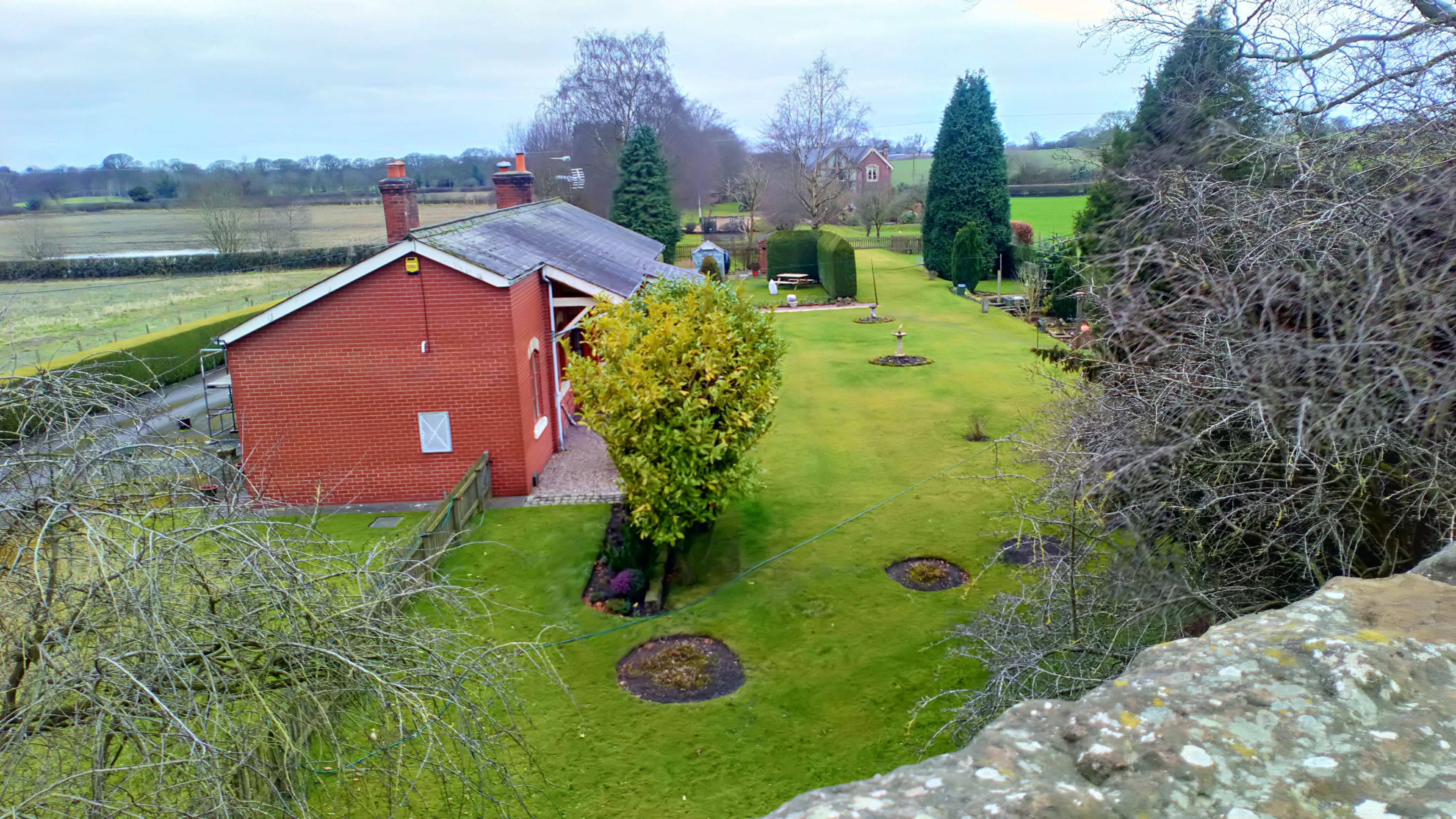 My own photo.